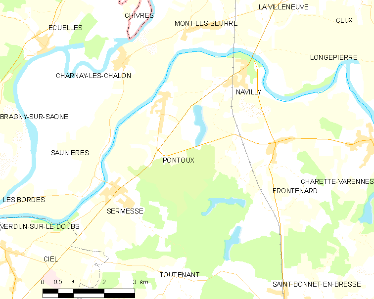 Map of French municipality